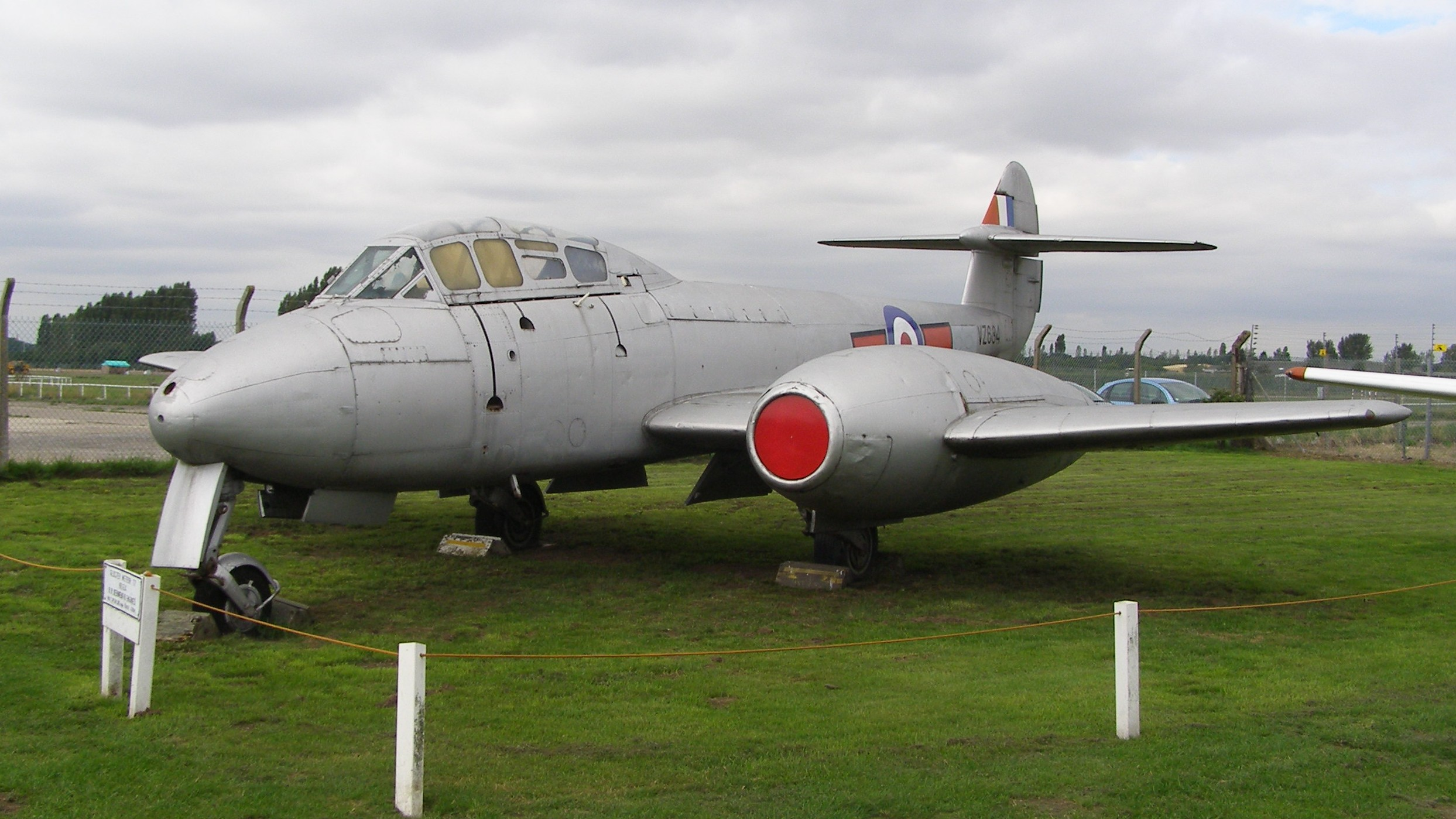 Gloster Meteor T7 at the Newark Air Museum, England